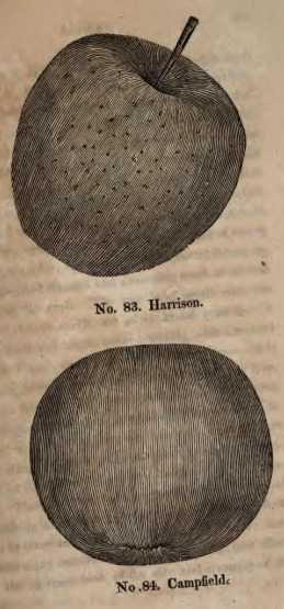 Illustration of Harrison and Campfield cider apple varieties from New Jersey